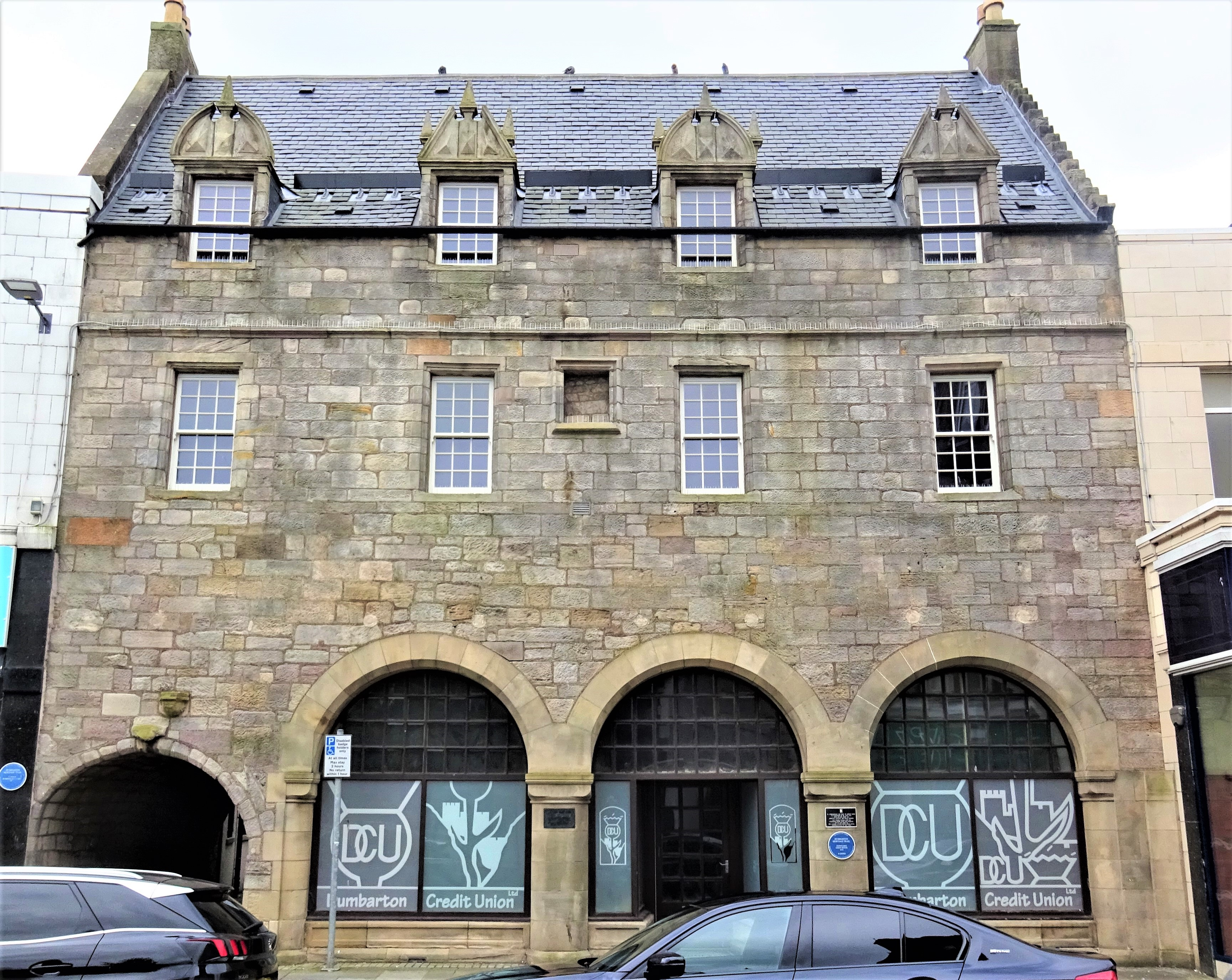 The Glencairn Greit House, High Street, Dumbarton. Scotland. The armorial panel is missing.